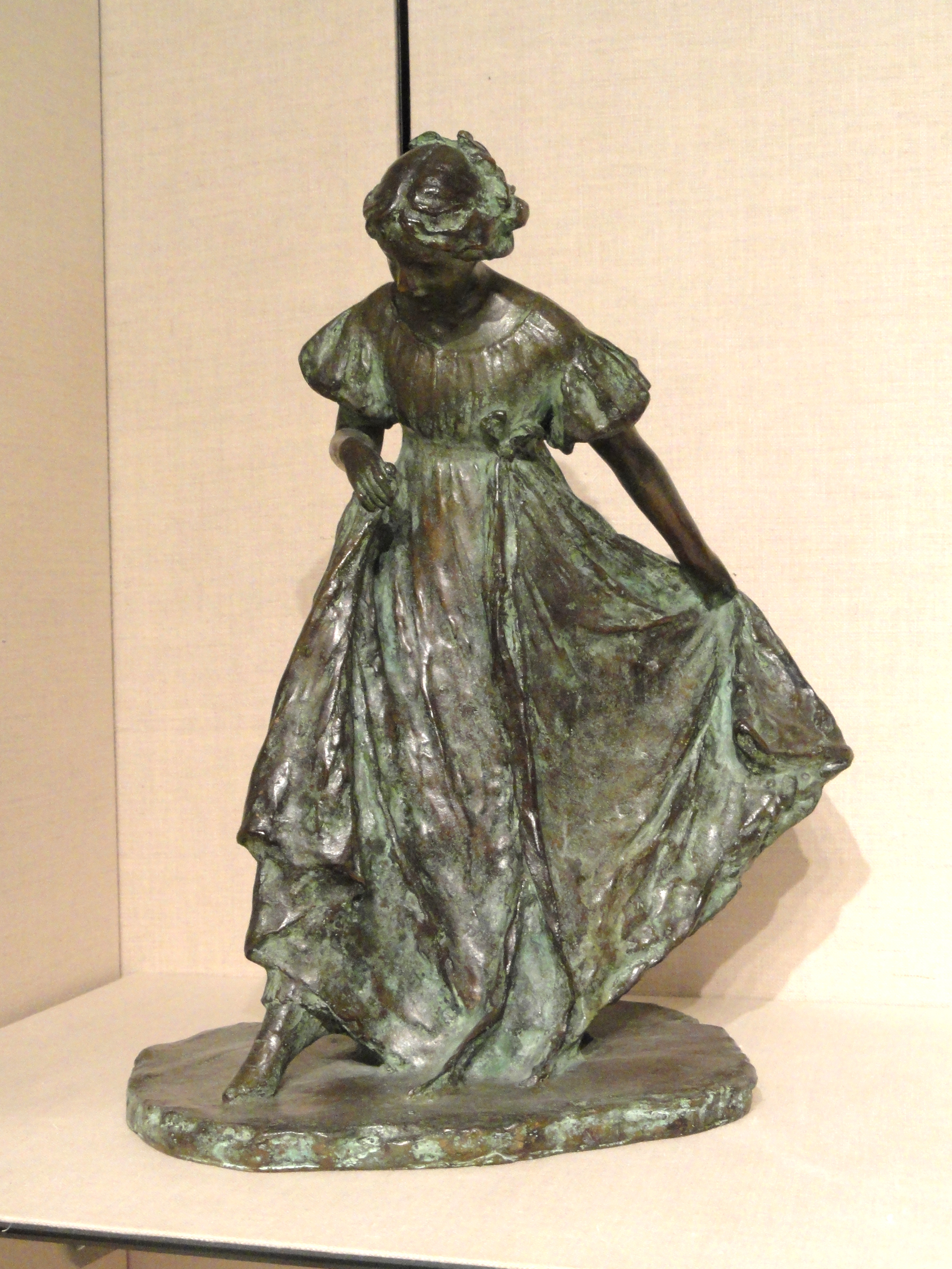 Sculpture exhibited in the Corcoran Gallery of Art, Washington, D.C., USA. There were no prohibitions against photography in the museum. This artwork is in the public domain because it was first published in the United States before 1923.